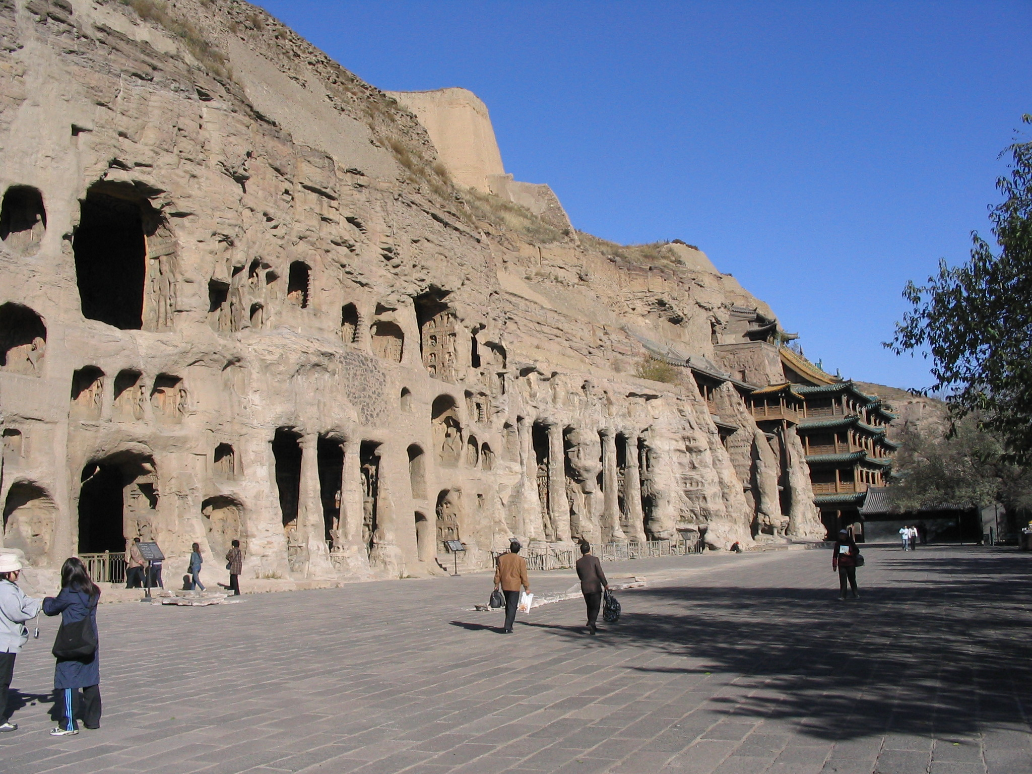 Yungang Grottoes, near Datong, Shanxi province, China.